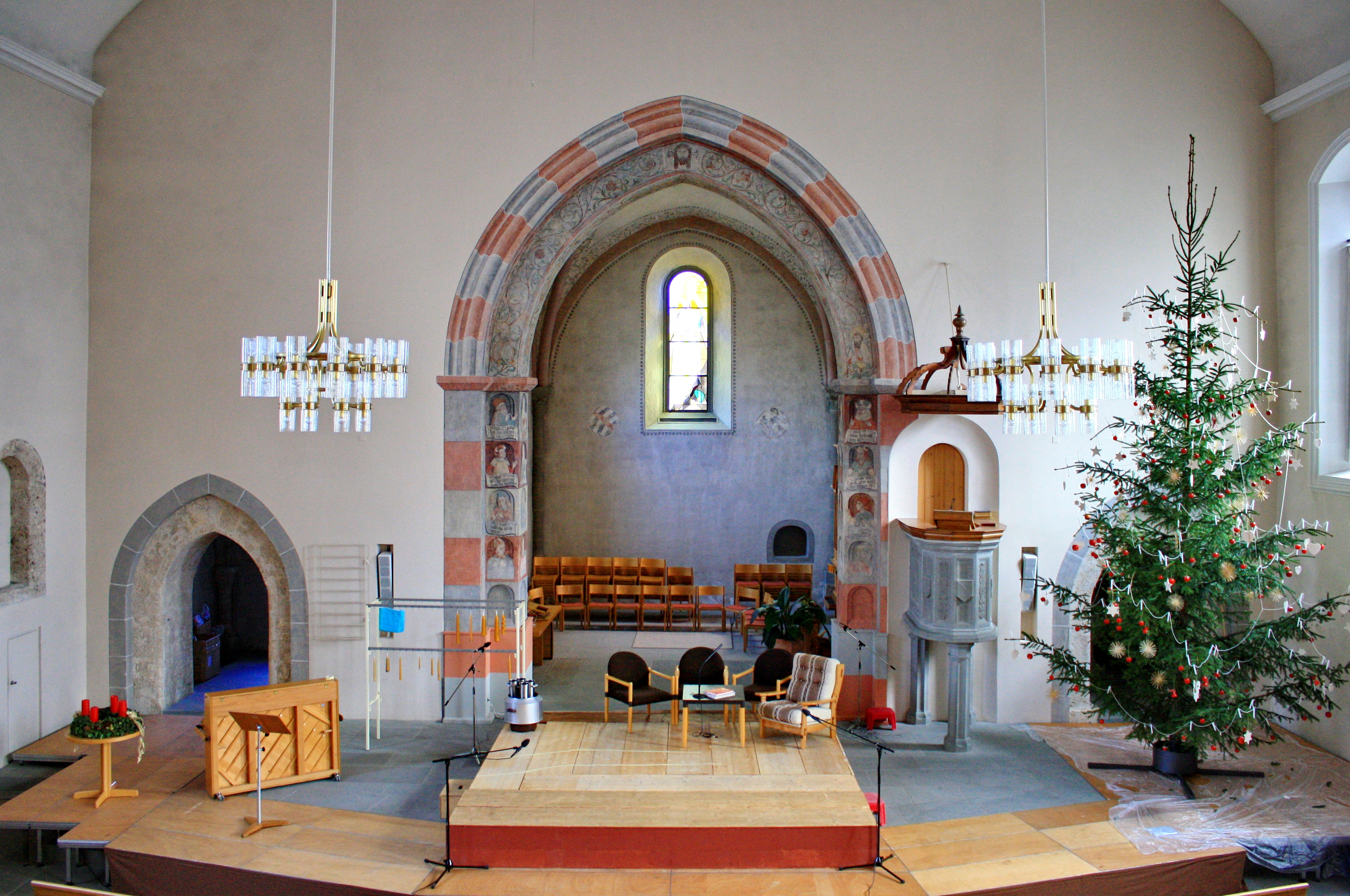 Rüti (ZH) : Former Rüti Abbey, today's Protestant church.